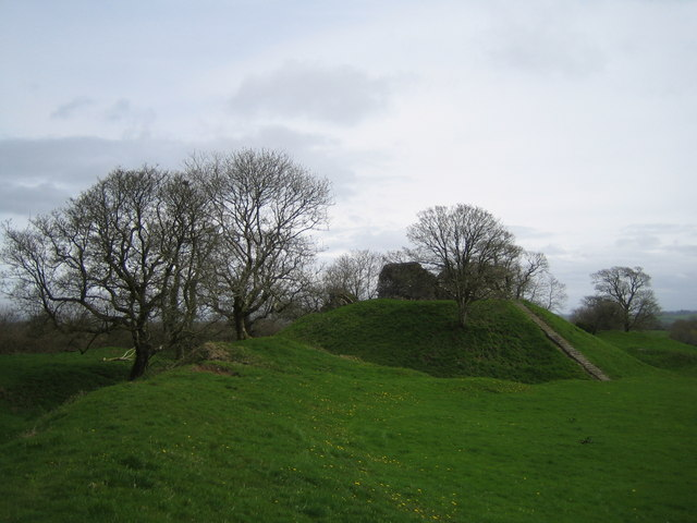 Wiston castle. A 12th century earthwork motte and bailey fortress, founded by Wizo, the Fleming.